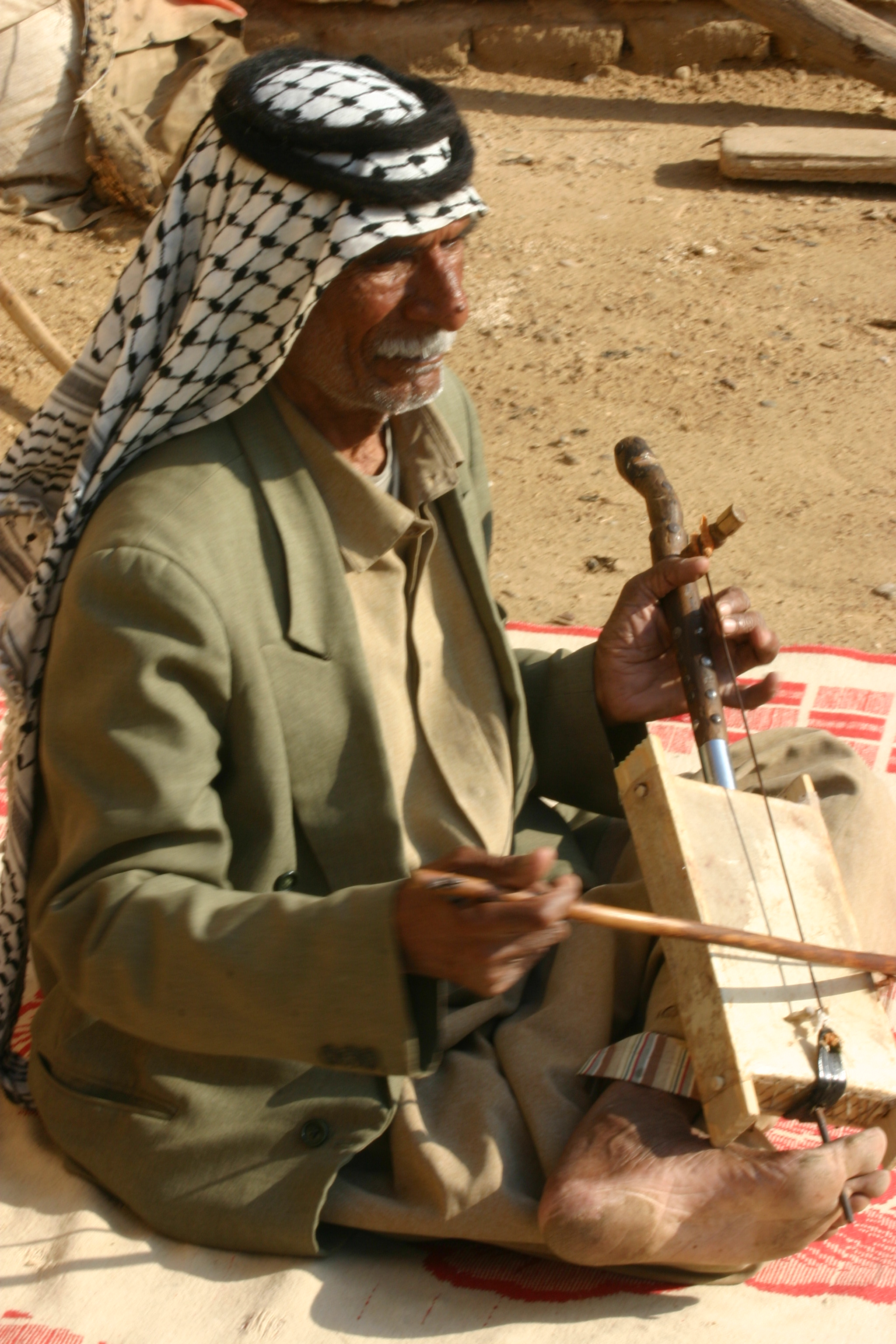 Ehsan Egzar